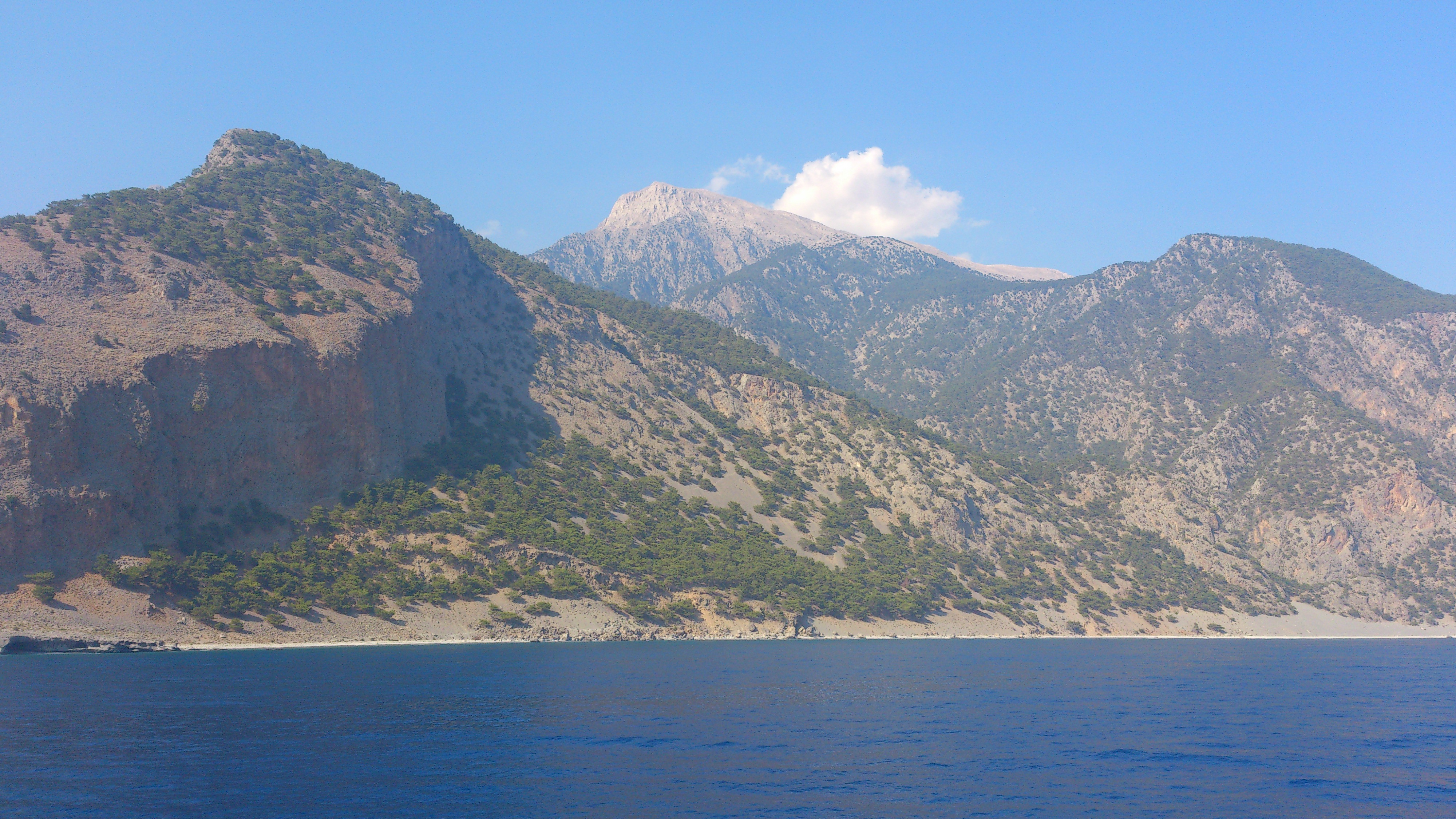 This is a photography of Natura 2000 protected area with ID GR4340008